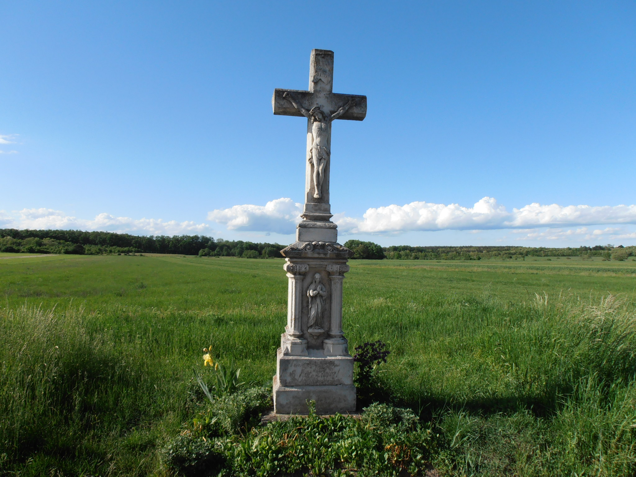 Stone cross in Bögöt, Hungary Bögöto kőkereszt